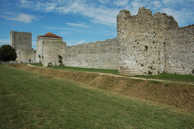 Portchester Castle The west wall, the Landgate and keep of Portchester Castle.